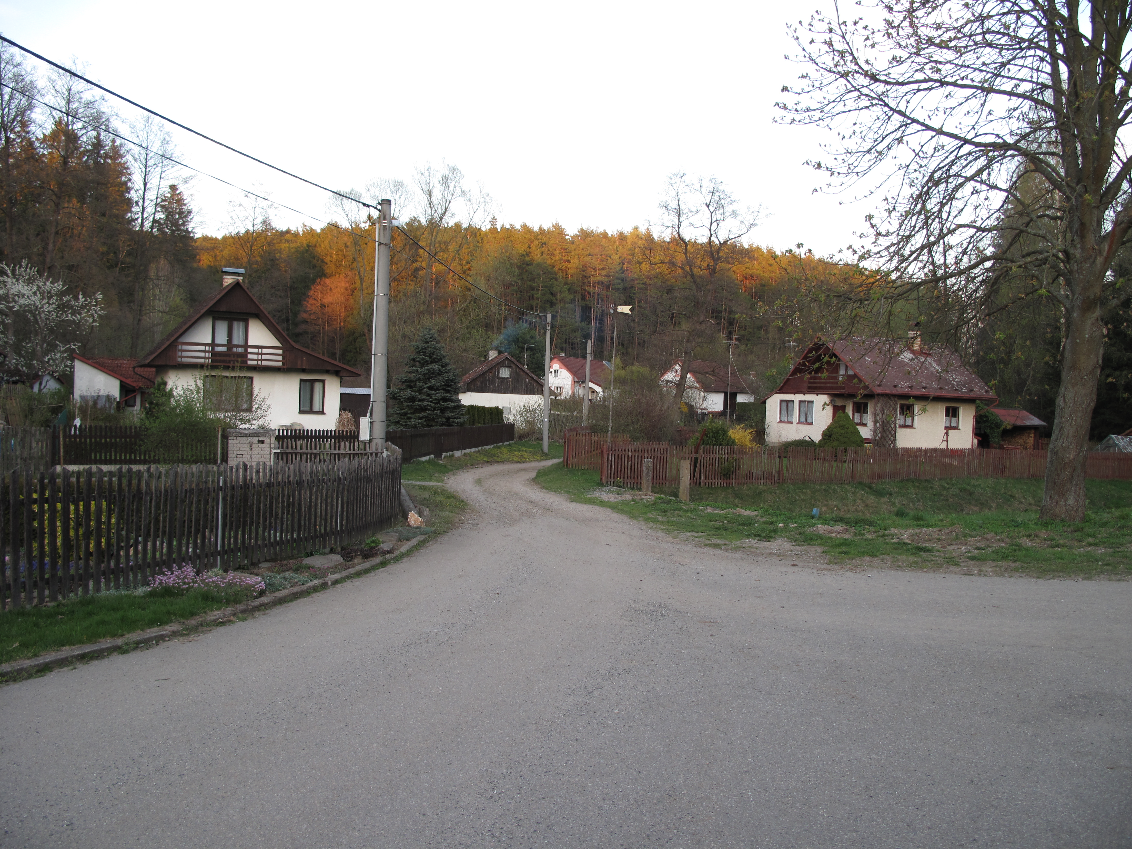 Houses in Slupy.